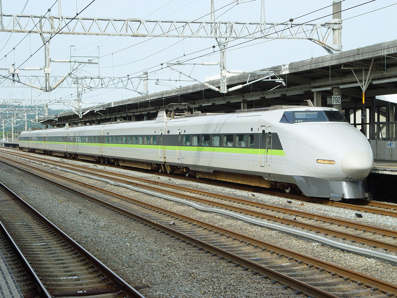 JR West 6-car 100 series shinkansen set K57 at Higashima-Hiroshima Station on the Kodama 633 service